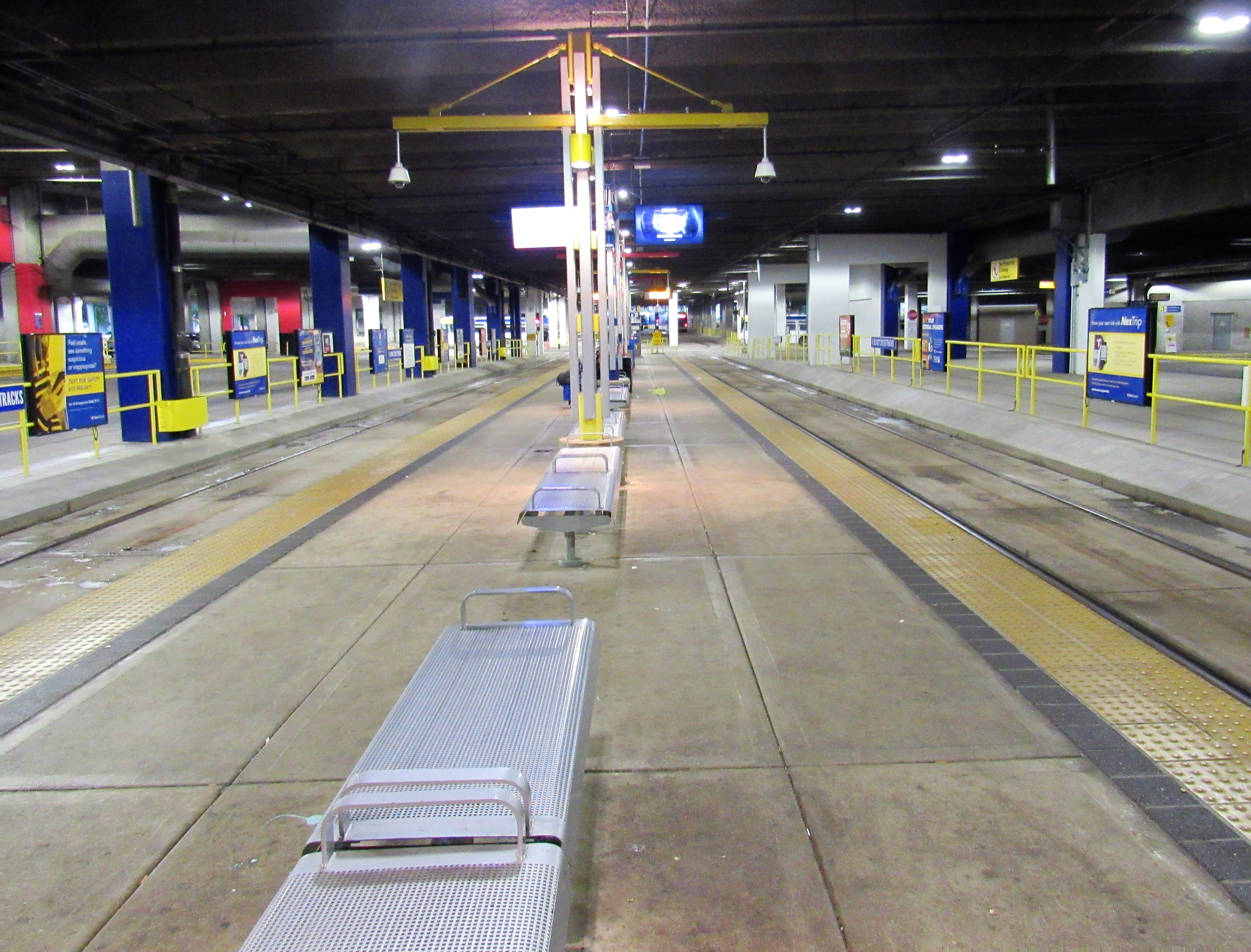 Mall of America light rail station in Bloomington, Minnesota.